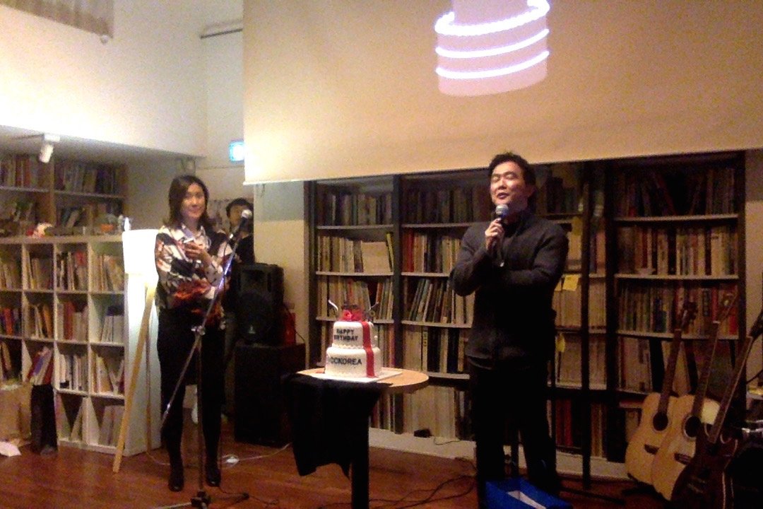 A celebration for 10th anniversary of Creative Commons License Korea held by Creative Commons Korea on March 19th, 2015 in Seoul.